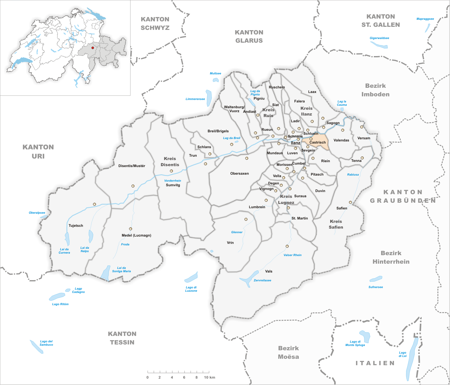 Municipality Castrisch